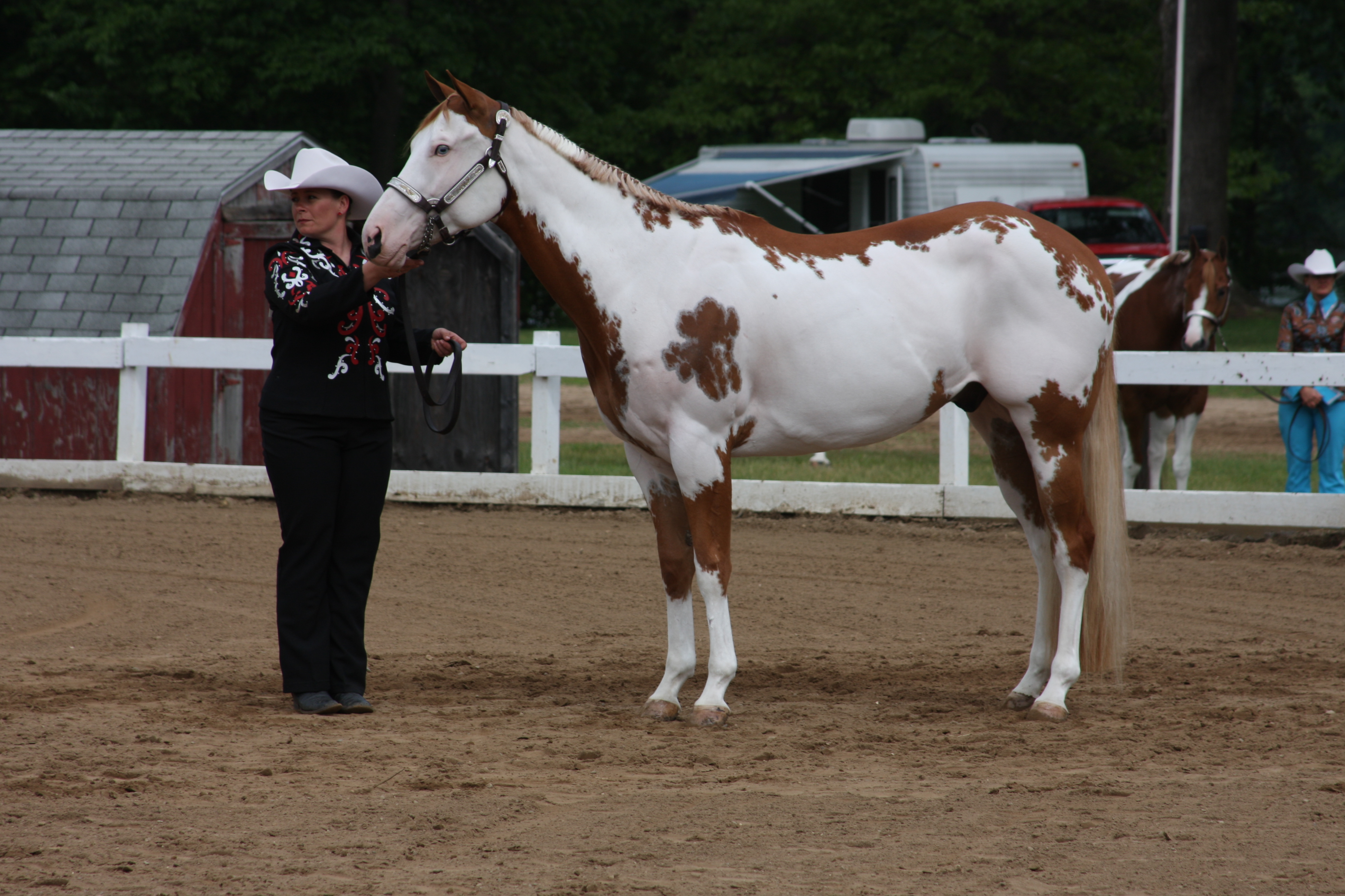 This horse is deaf and Katie has done a remarkable job training him.